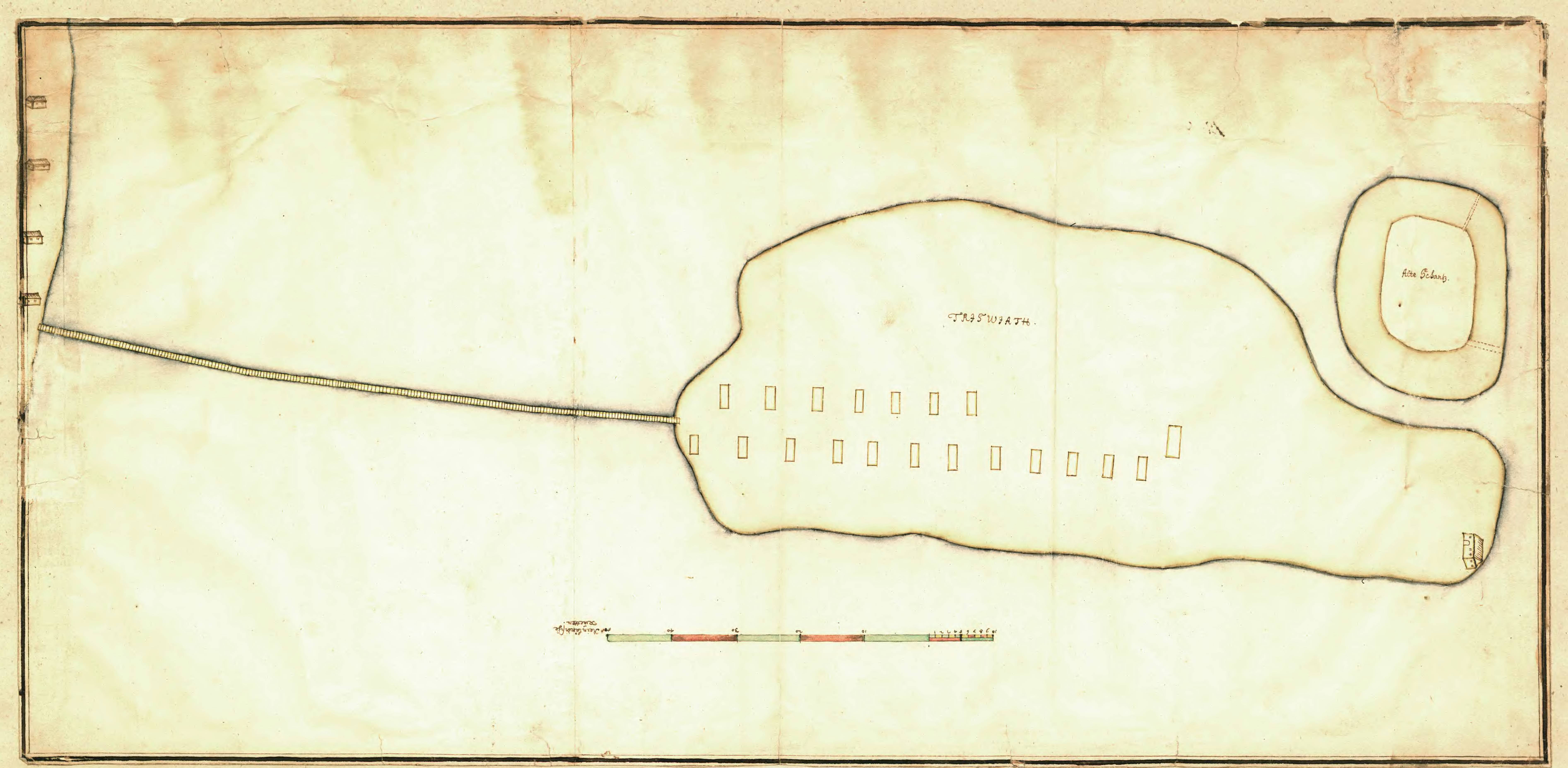 Drysviaty plan 17-18 cc.